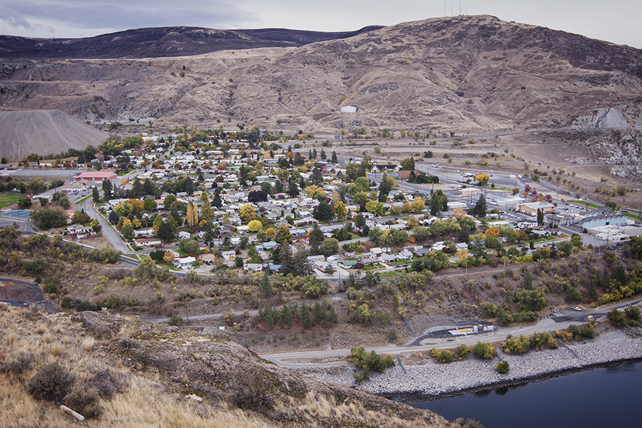 Coulee Dam, WA (the Okanogan County portion of the town), from Crown Point locking east.